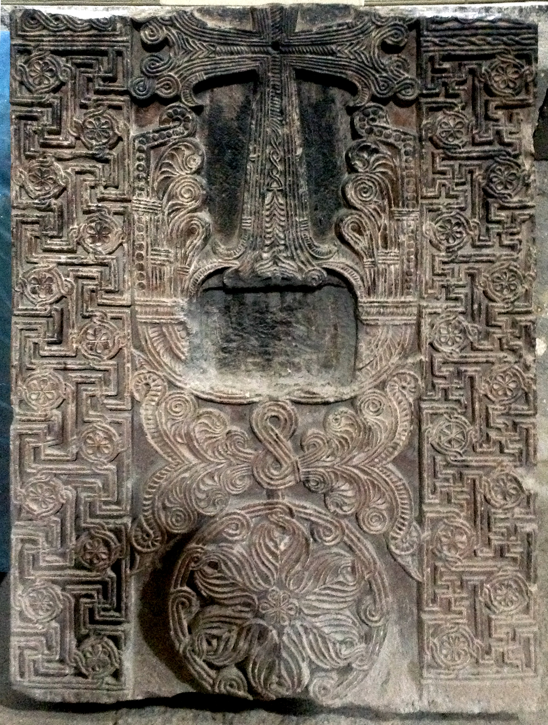 Khachkar with Swastikas, 11-12th century, Sanahin, Armenia 2/33.10.2